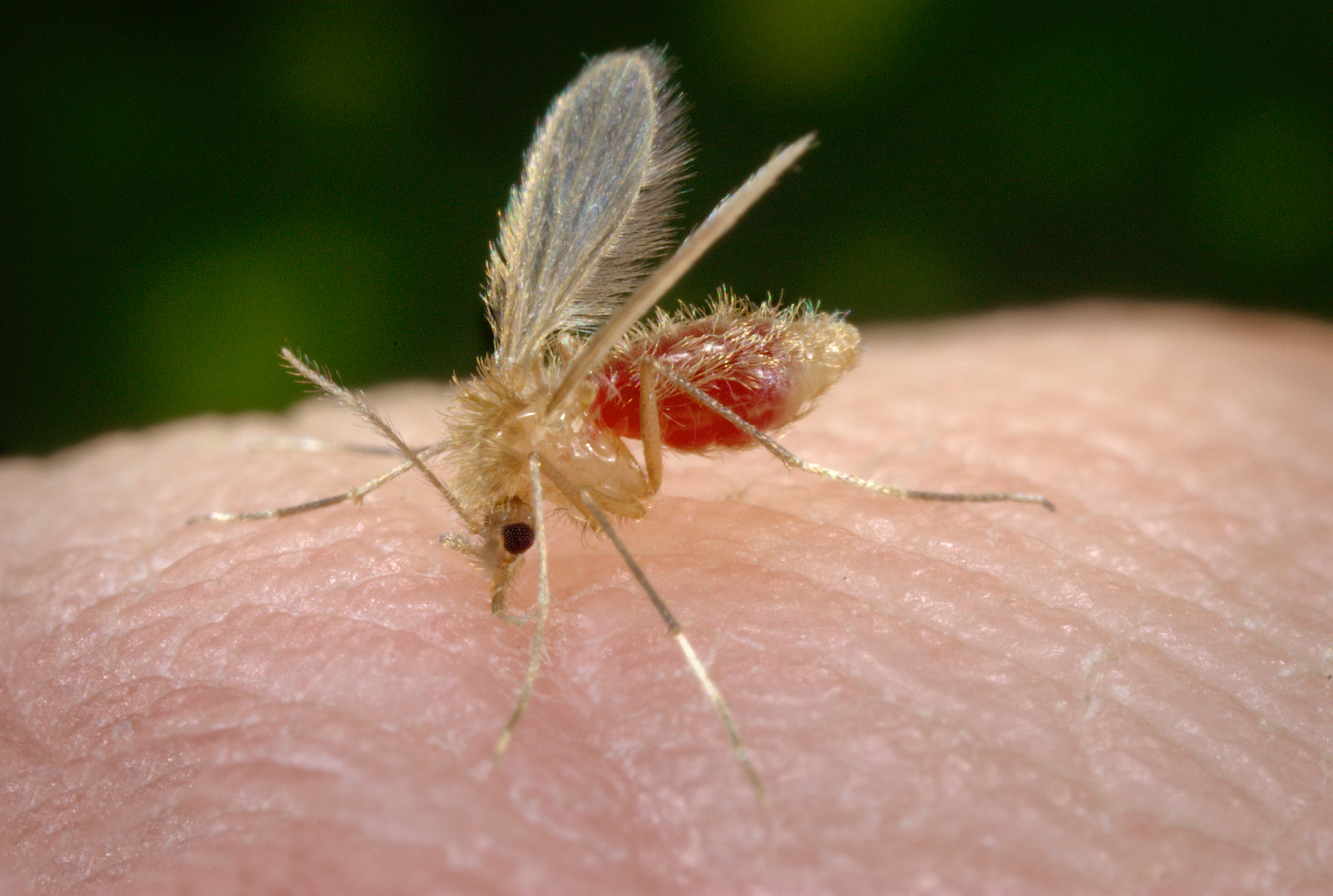 This photograph depicts a Phlebotomus papatasi sandfly, which had landed atop the skin surface of the photographer, who’d volunteered himself as host for this specimen’s blood meal. The sandflies are members of the Dipteran family, Psychodidae, and the subfamily Phlebotominae. This specimen was still in the process of ingesting its bloodmeal, which is visible through its distended transparent abdomen. Sandflies such as this P. papatasi, are responsible for the spread of the vector-borne parasitic disease leishmaniasis, which is caused by the obligate intracellular protozoa of the genus Leishmania.